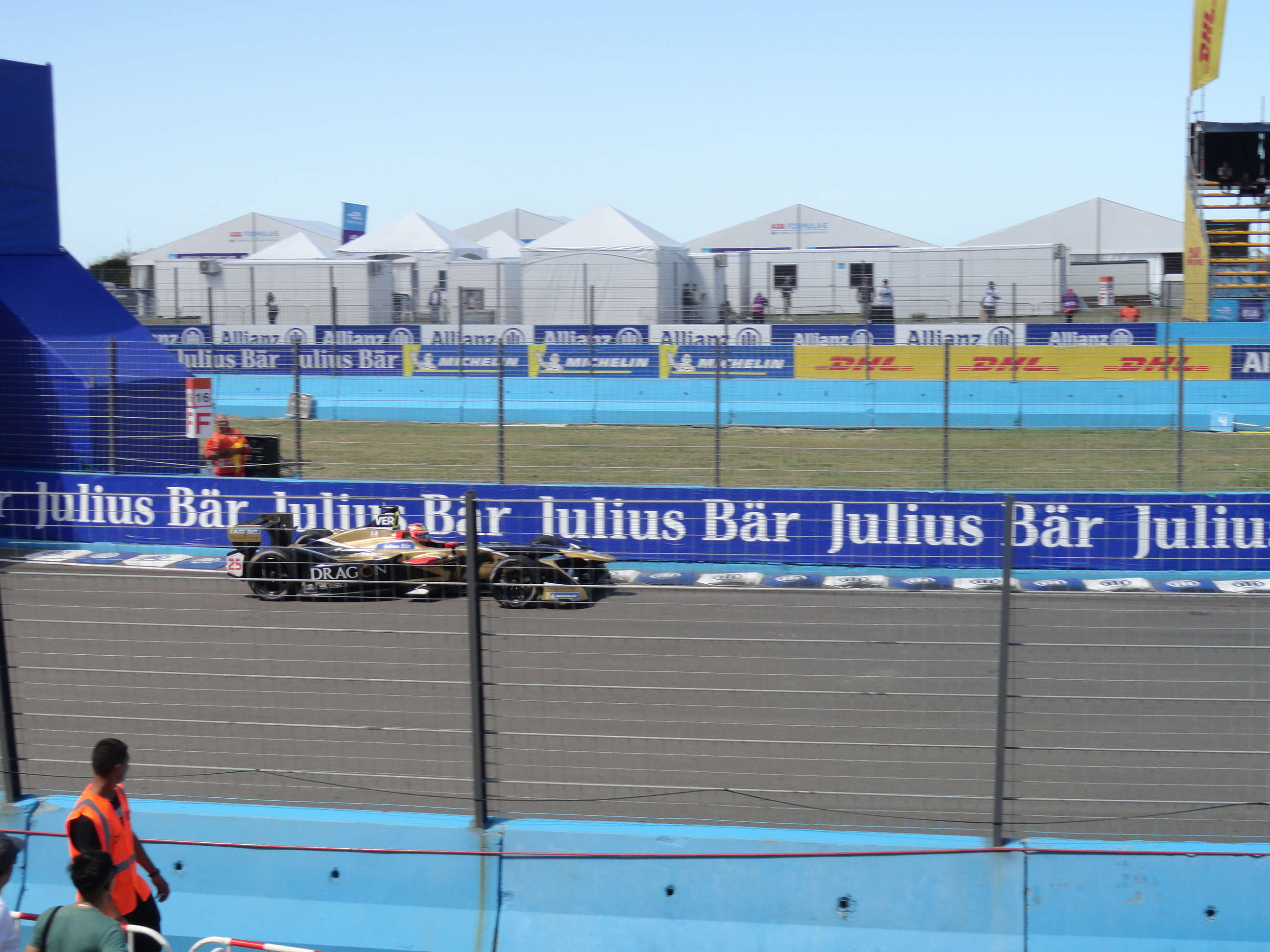 Qualifying at the 2018 Punta del Este ePrix.